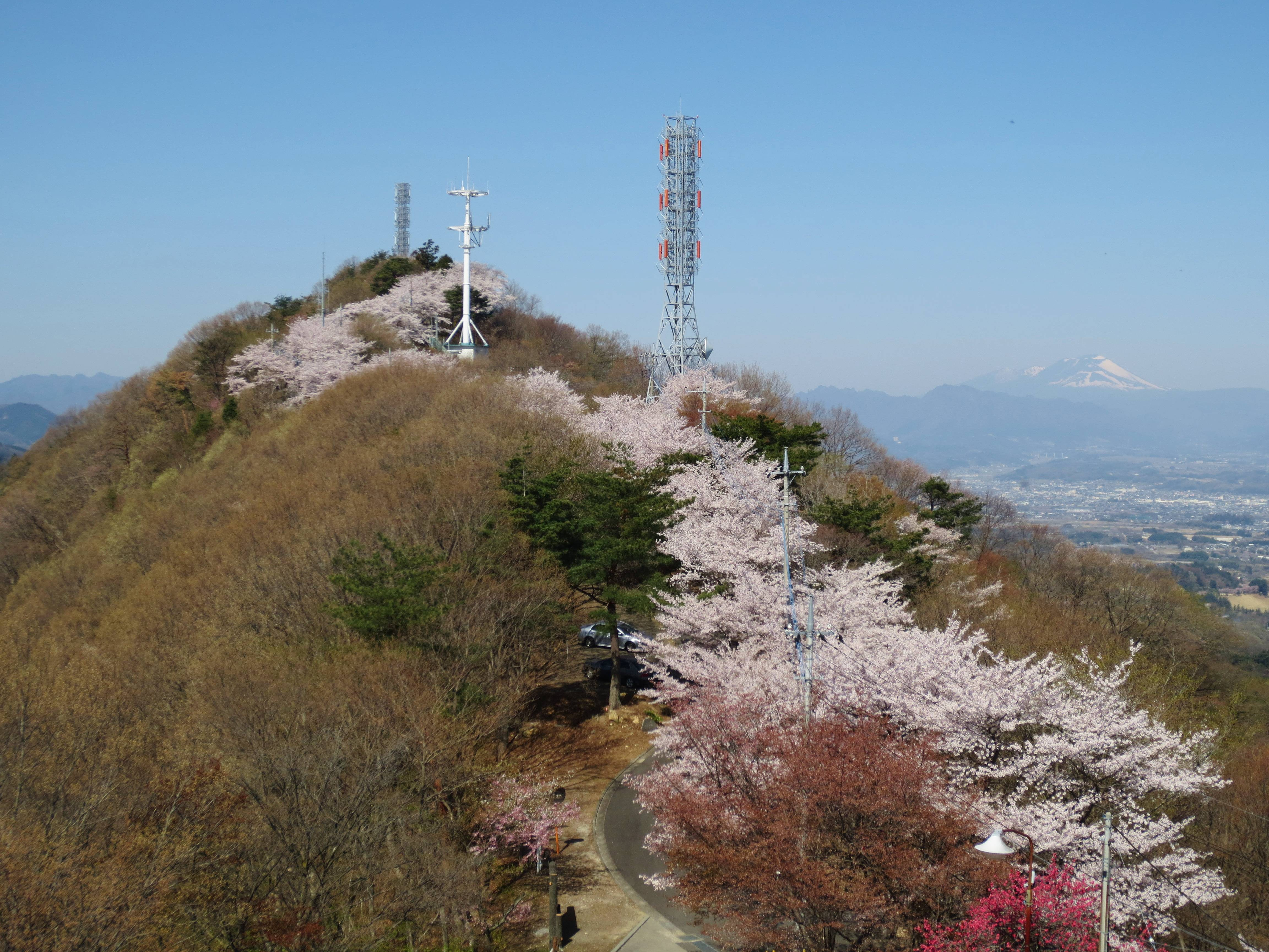 Mount Ushibuse (Takasaki, Gunma).